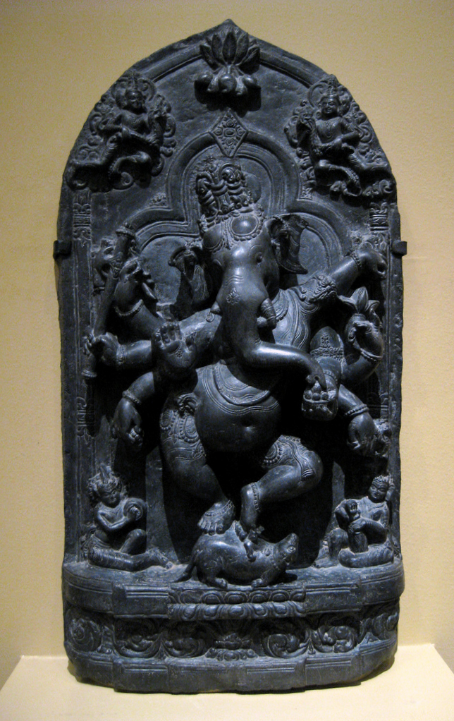 Bangladesh, Dinajpur District, South Asia Dancing Ganesha, Lord of Obstacles, 11th-12th century Sculpture; Stone, Phyllite, 25 3/4 x 13 1/4 x 5 in. (65.41 x 33.66 x 12.7 cm) The Phil Berg Collection (M.71.73.143) Wikipedia Loves Art at the Los Angeles County Museum of Art This photo of item # M.71.73.143 at the Los Angeles County Museum of Art was contributed under the team name "artifacts" as part of the Wikipedia Loves Art project in February 2009. Los Angeles County Museum of Art The original photograph on Flickr was taken by Hartmannia—please add a comment to the original Flickr page whenever a use has been made on Wikipedia or another project. Project galleries on Flickr: this institution, this team